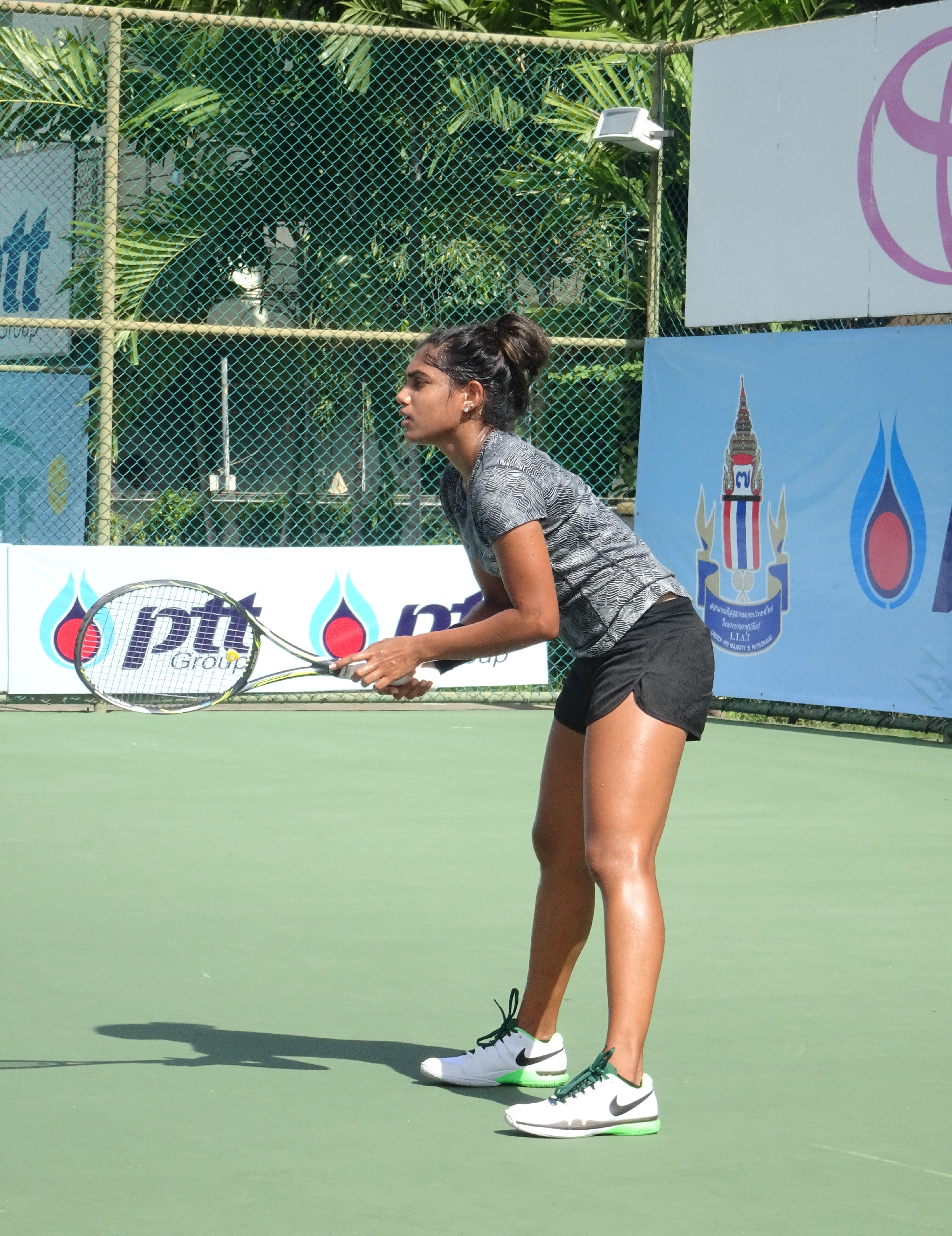 Natasha Palha at the ITF Women's Circuit in Nonthaburi 2017